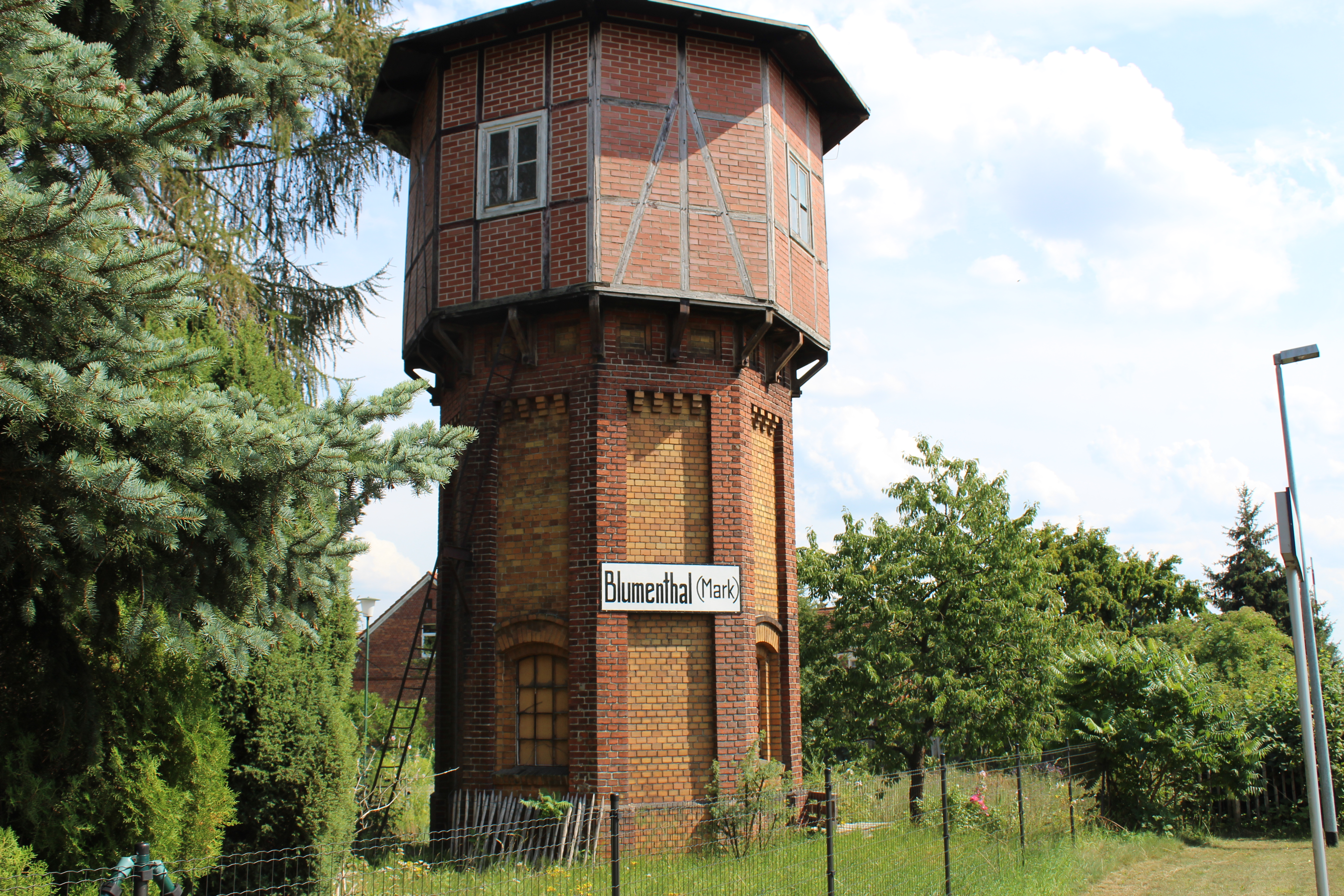 train station Blumenthal (Mark), Wasserturm